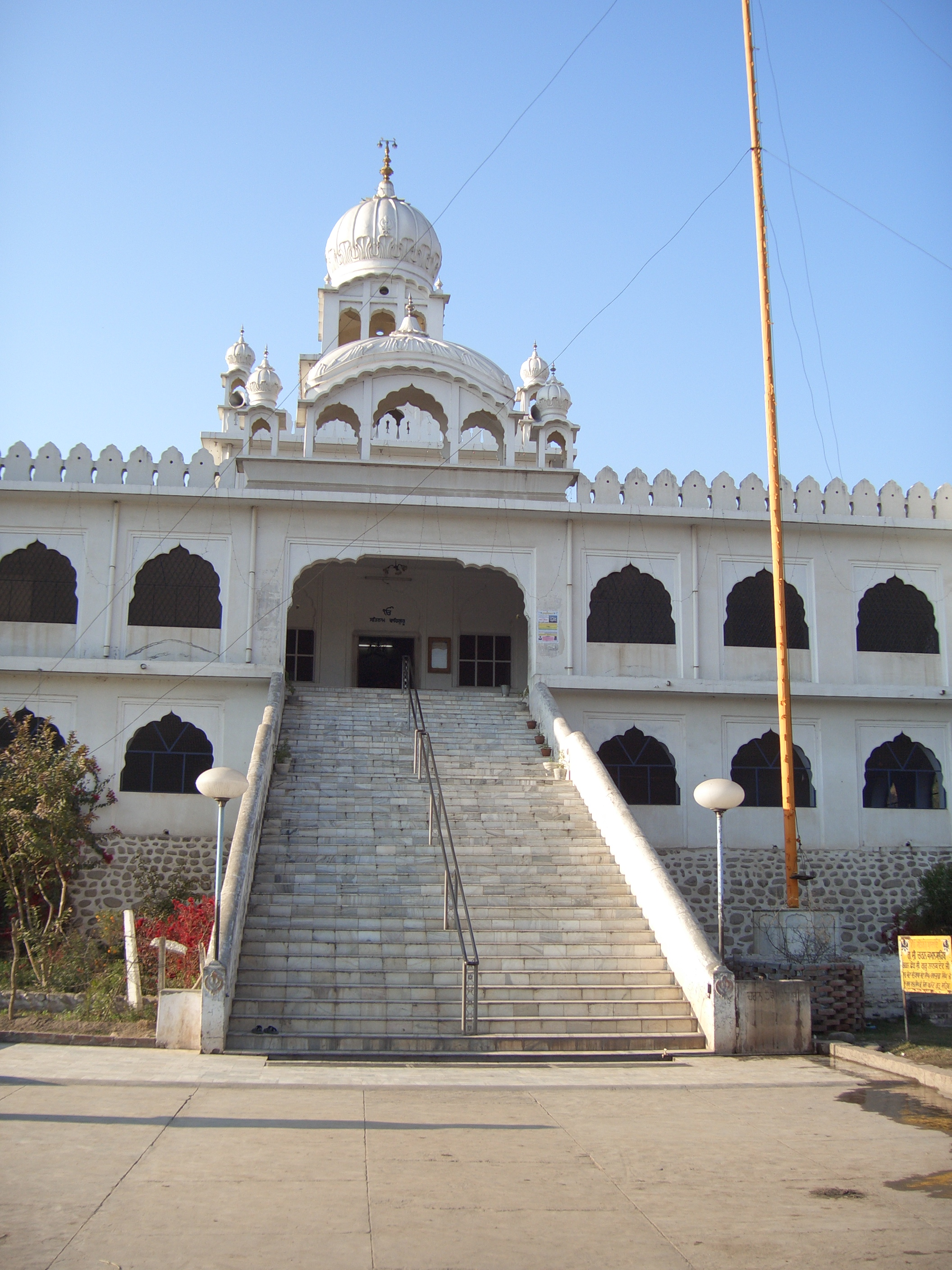 Yet another ever closer front view of Gurdwara Charan Kamal, Kiratpur, Punjab, India showing the long, steep and wide steps leading up to the main prayer hall. Read more at Sikhiwiki - follow the link